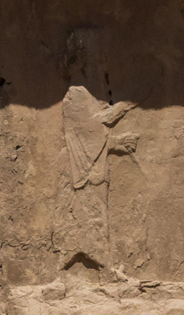 Darius II